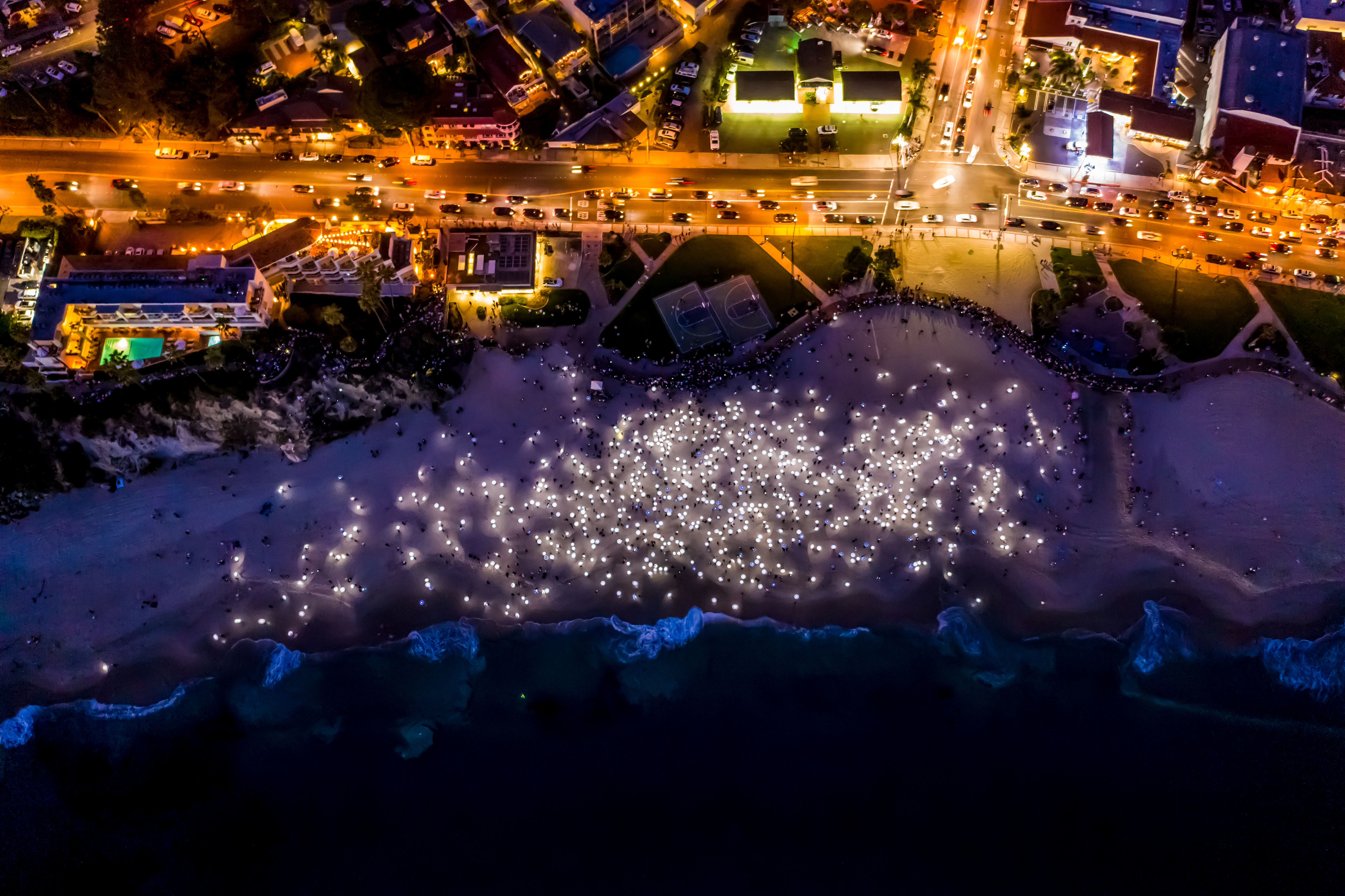 Shoreline Project - Image Credits Christopher Stobie